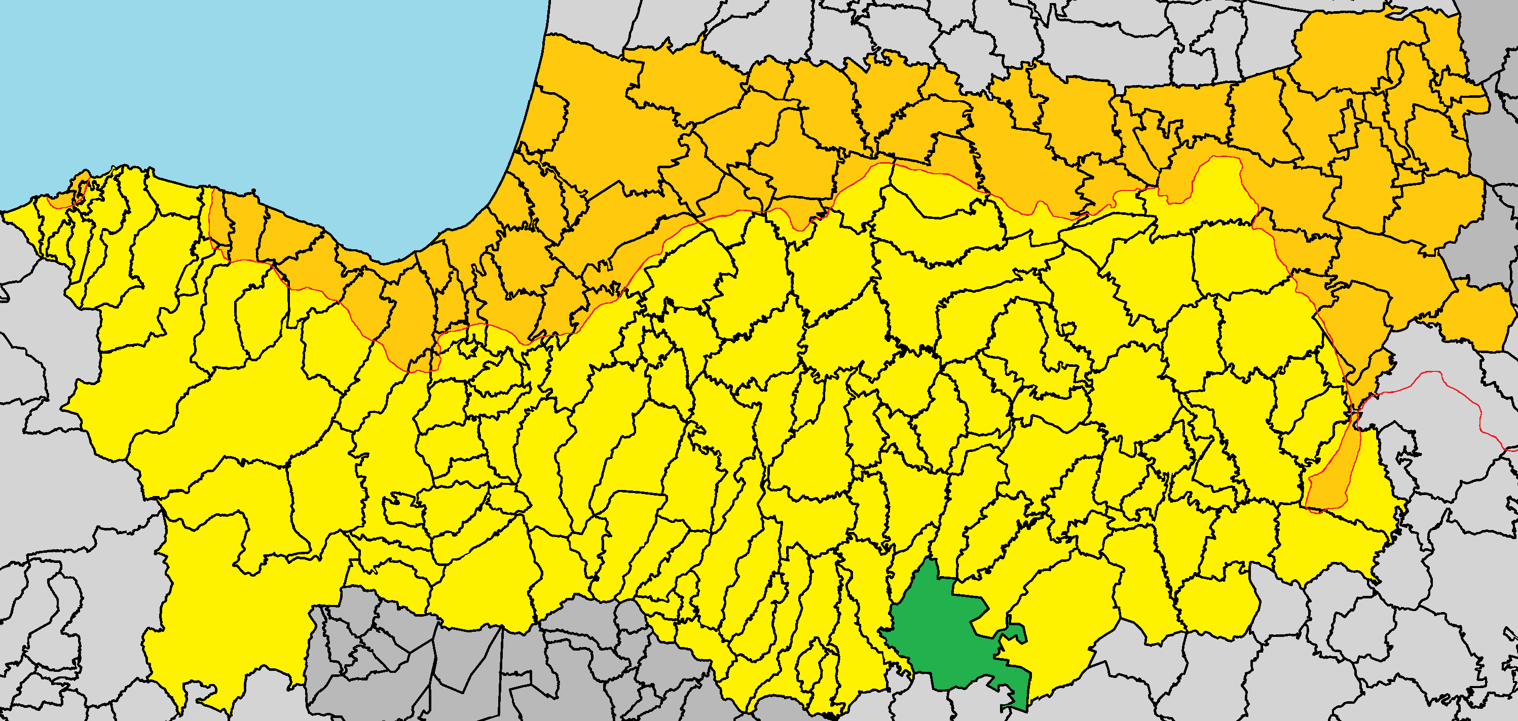 Lazanias in Nicosia District.